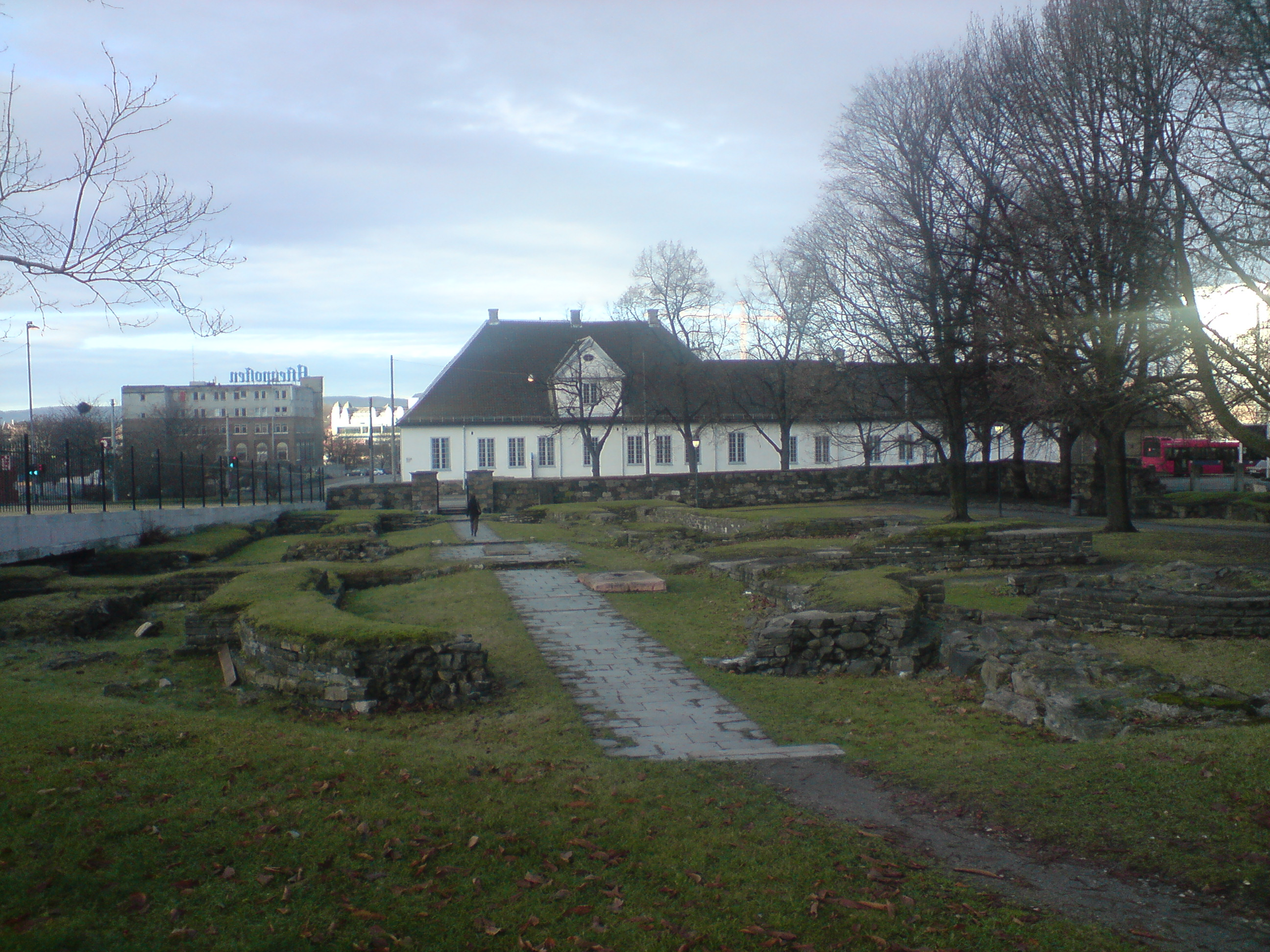 Ruins of the medieval cathedral dedicated to St. Hallvard in Oslo